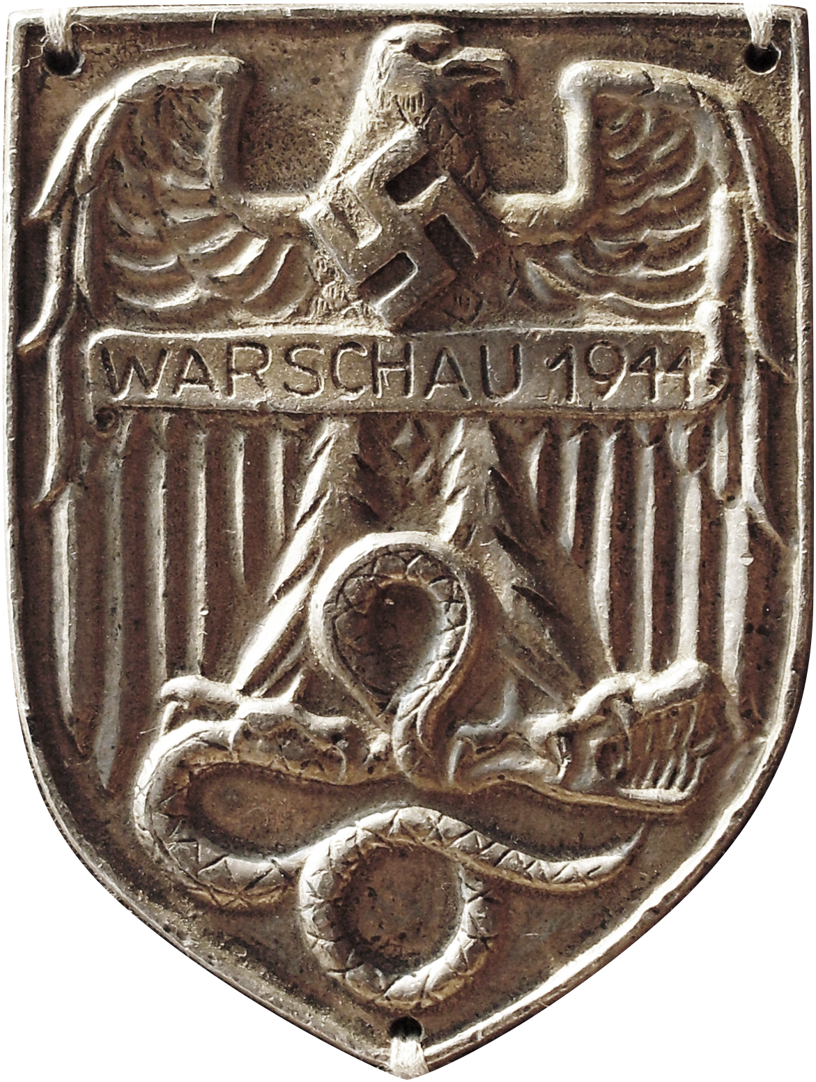 Warsaw Shield. German campaign award for suppression of 1944 Warsaw Uprising. Design approved, but war ended before manufactured.